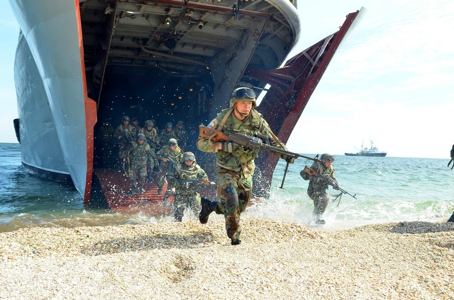 Navy. Ukrainian marines. Photo by Evgen Sylkin